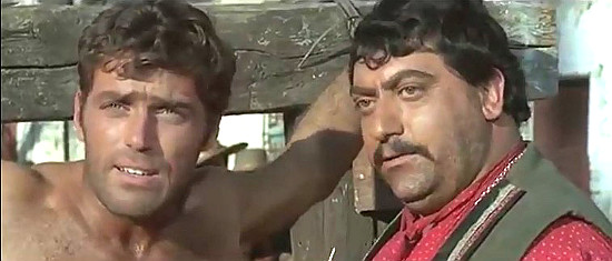 David Bailey as Gregor McGregor with Tito Garcia as Miguel in Seven Guns for the MacGregors, 1967